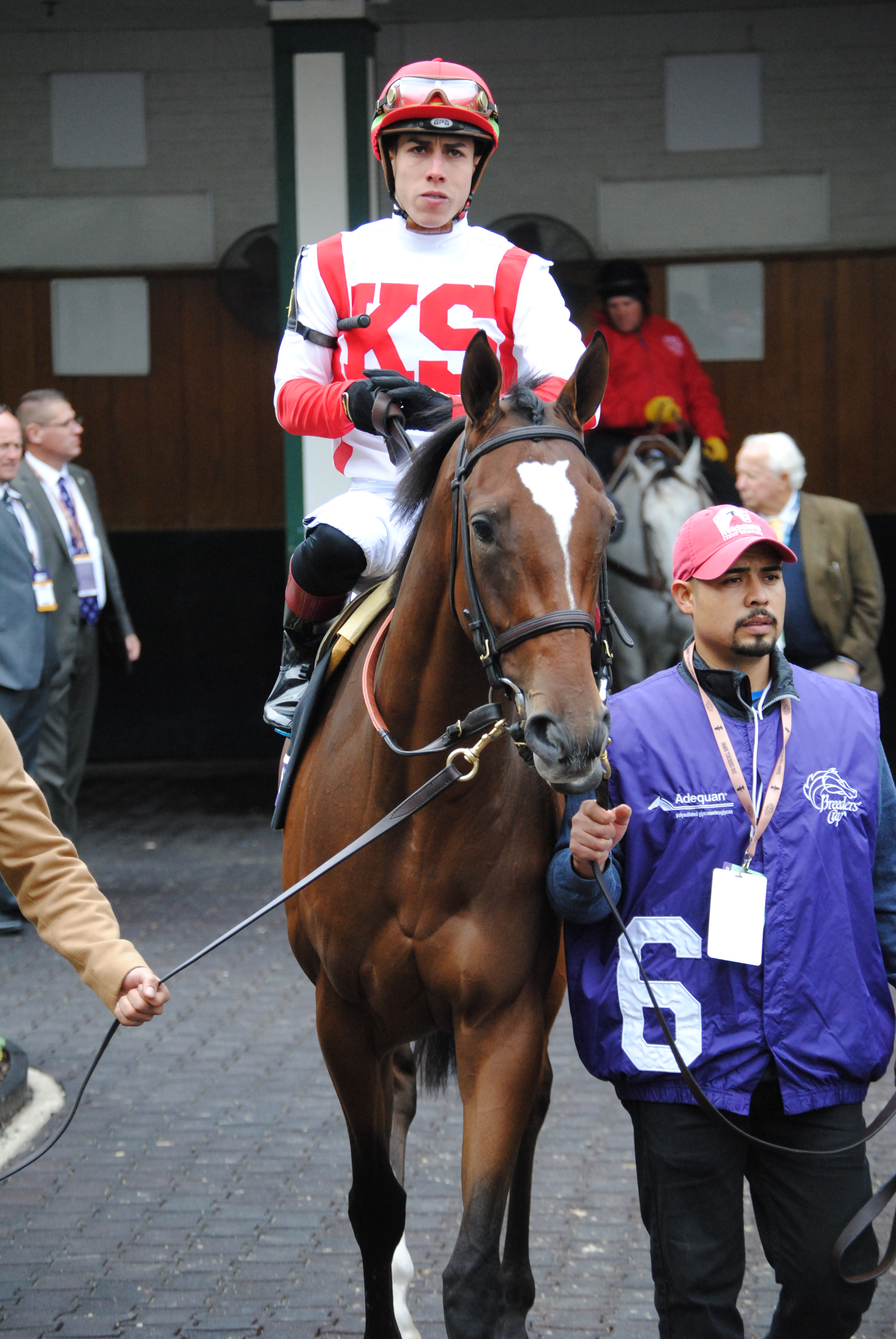 Newspaperofrecord with jockey Irad Ortiz Jr. prior to winning the Breeders' Cup Juvenile Fillies Turf